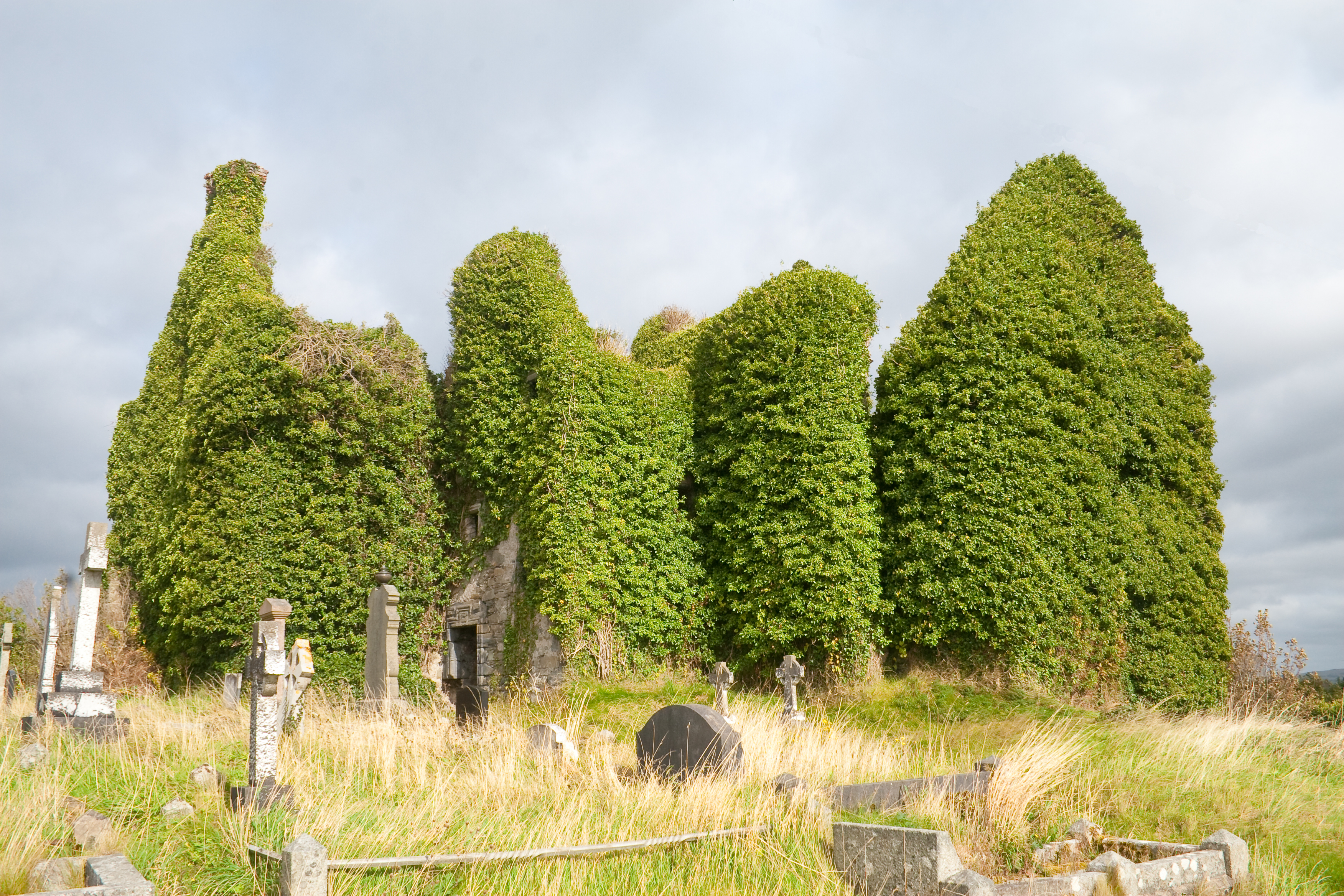 Rathmullan Priory, Rathmullan, County Donegal, Ireland South-west view of Rathmullan Priory.